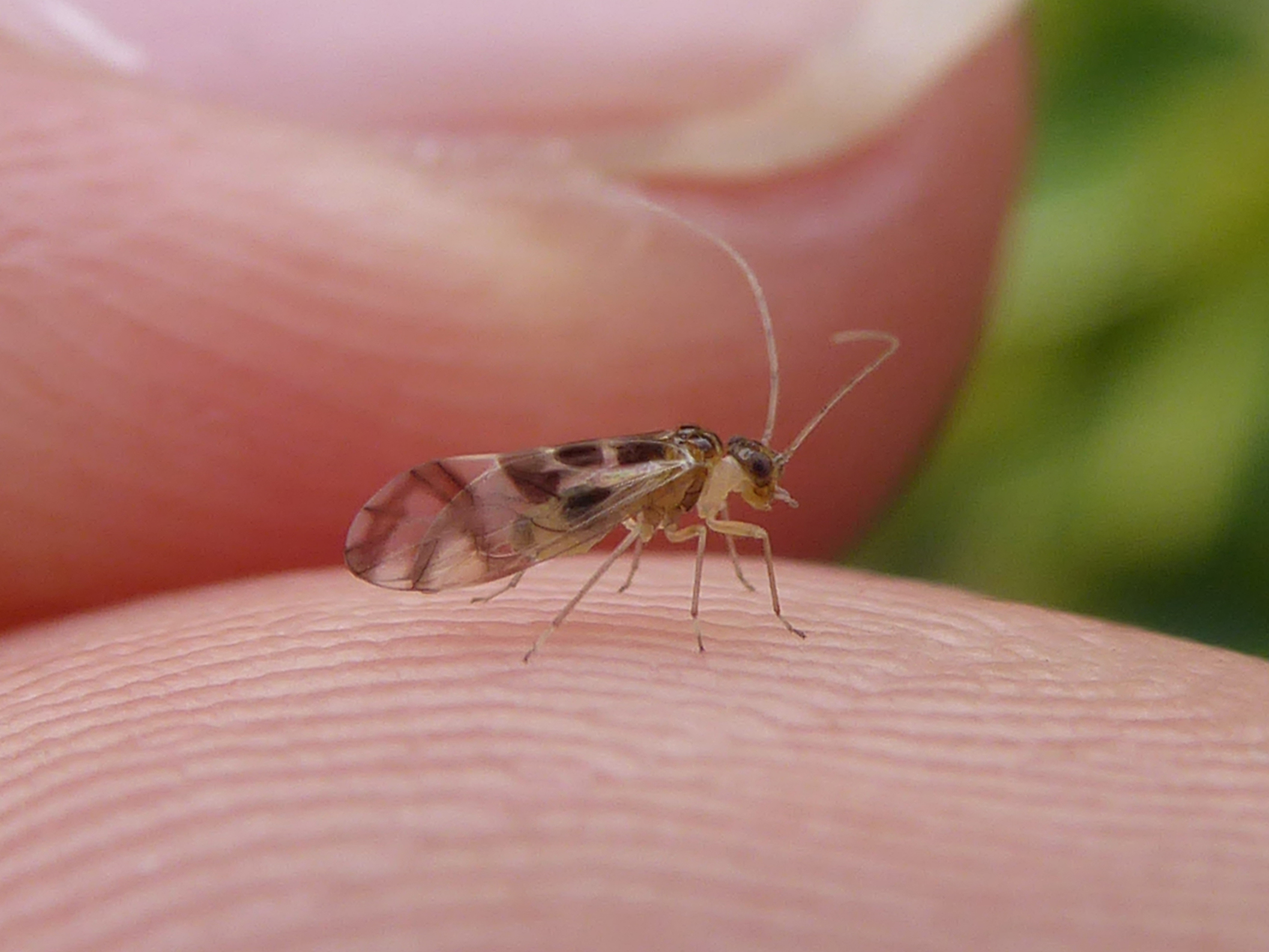 Graphopsocus cruciatus in the gardens of Cawdor Castle (Scotland)